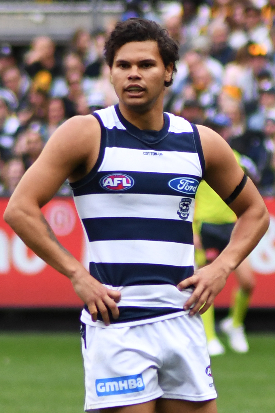 Brandan Parfitt of Geelong during the 2019 AFL round 5 match between Hawthorn and Geelong at the Melbourne Cricket Ground on Monday, 22 April 2019 in Melbourne, Victoria.